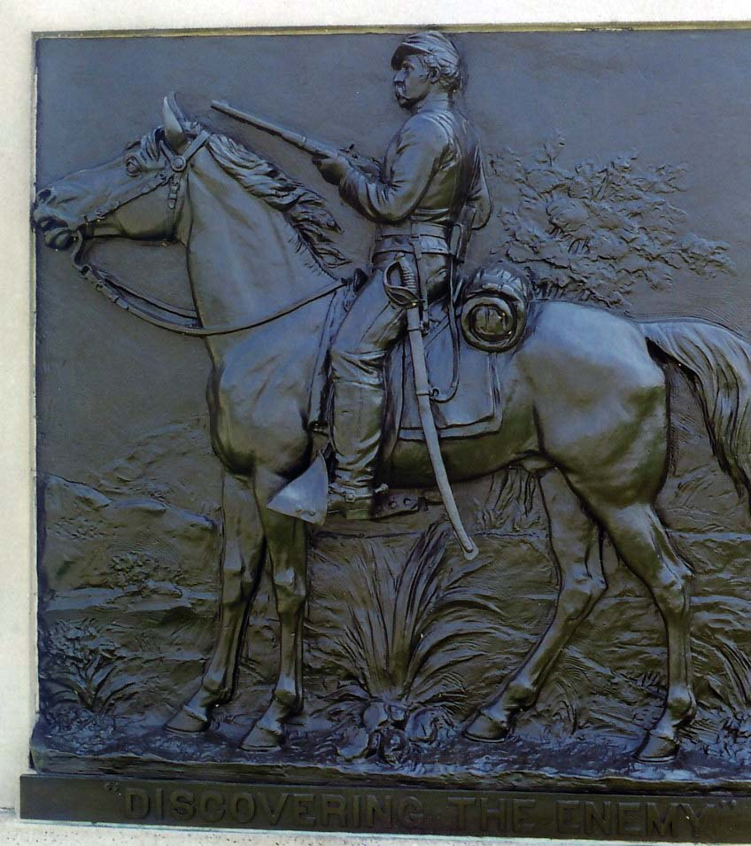 9th NY Cavalry monument at Gettysburg battlefield, Caspar Buberl, sculptor